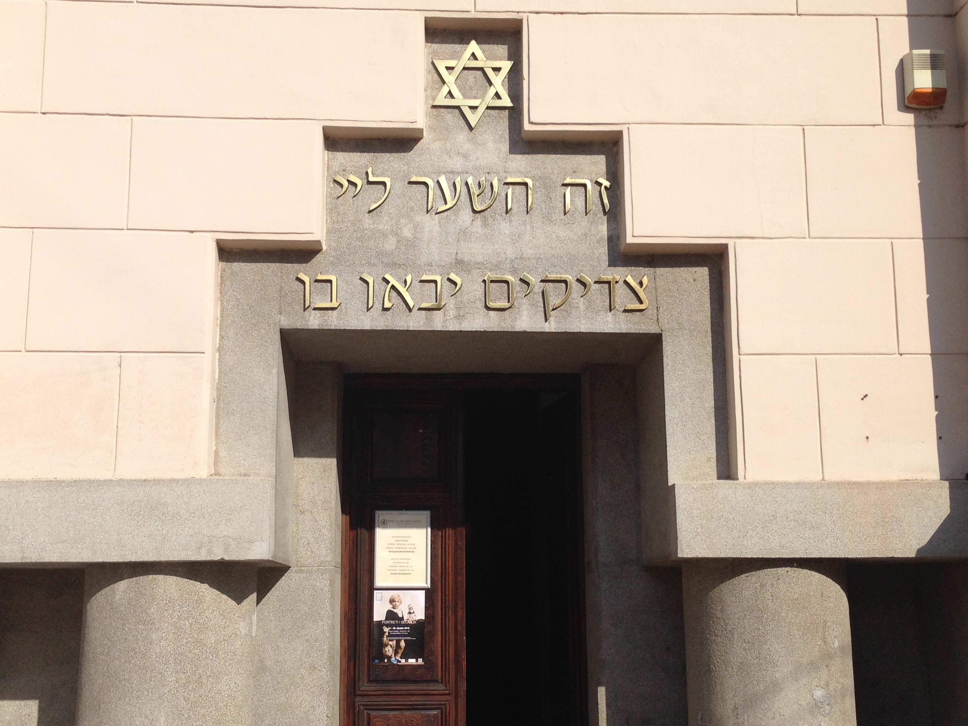 Synagogue in Nis, Serbia, The inscription above the entrance